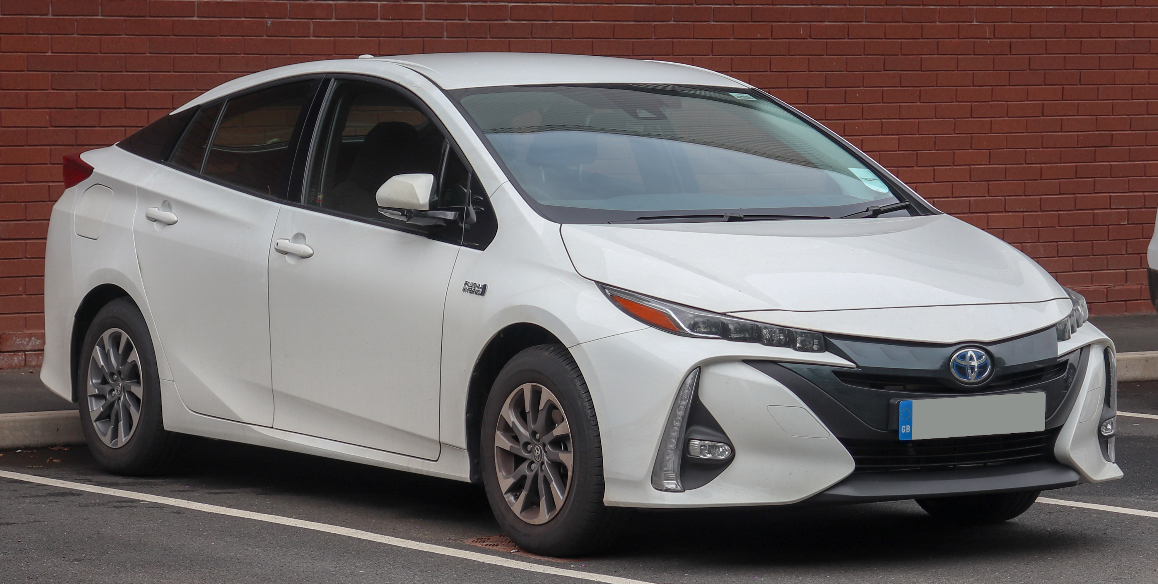 2019 Toyota Prius Business Edition+ PHEV 1.8 Taken in Leamington Spa